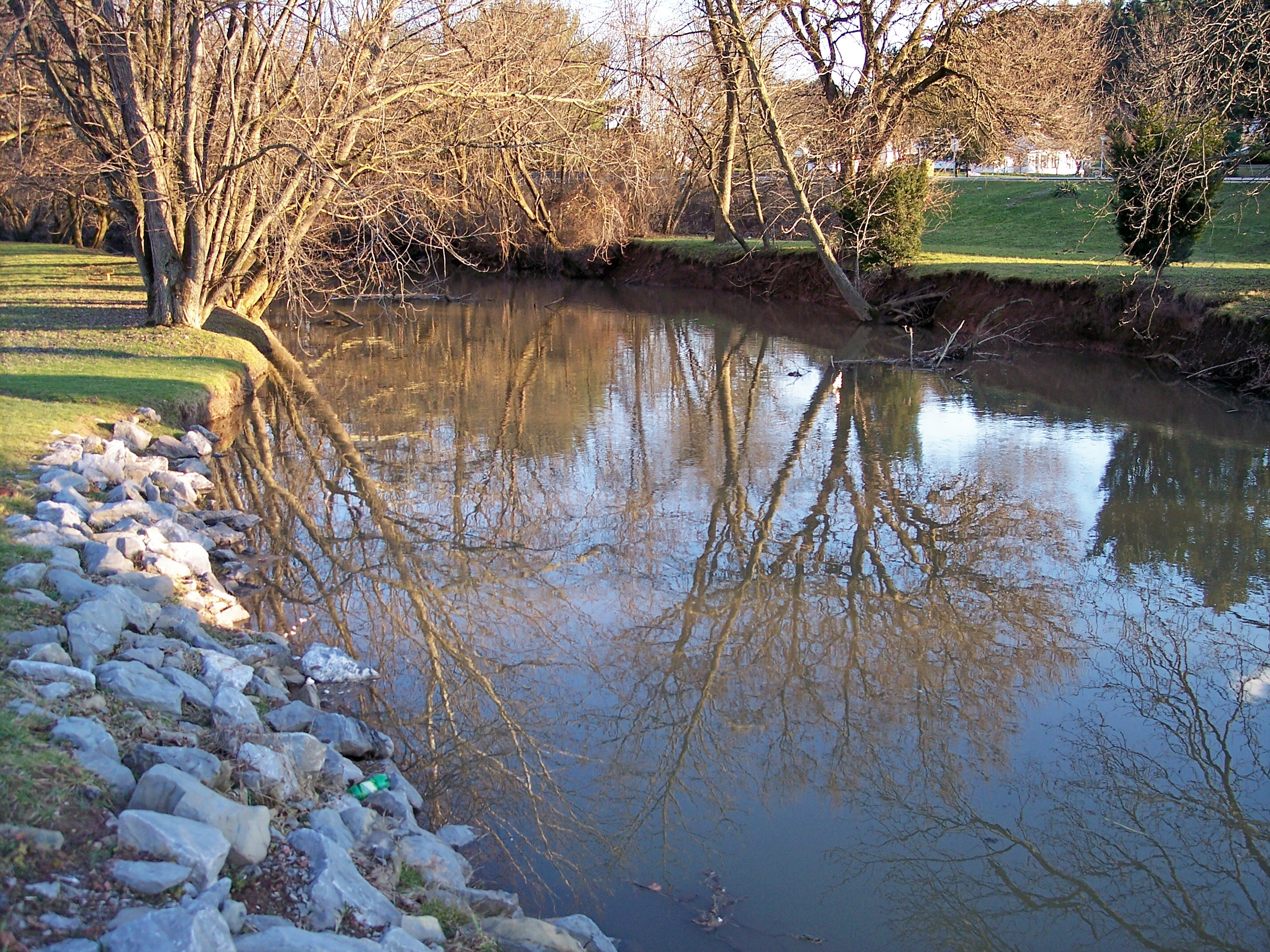 Hackers Creek in Jane Lew, West Virginia, looking downstream